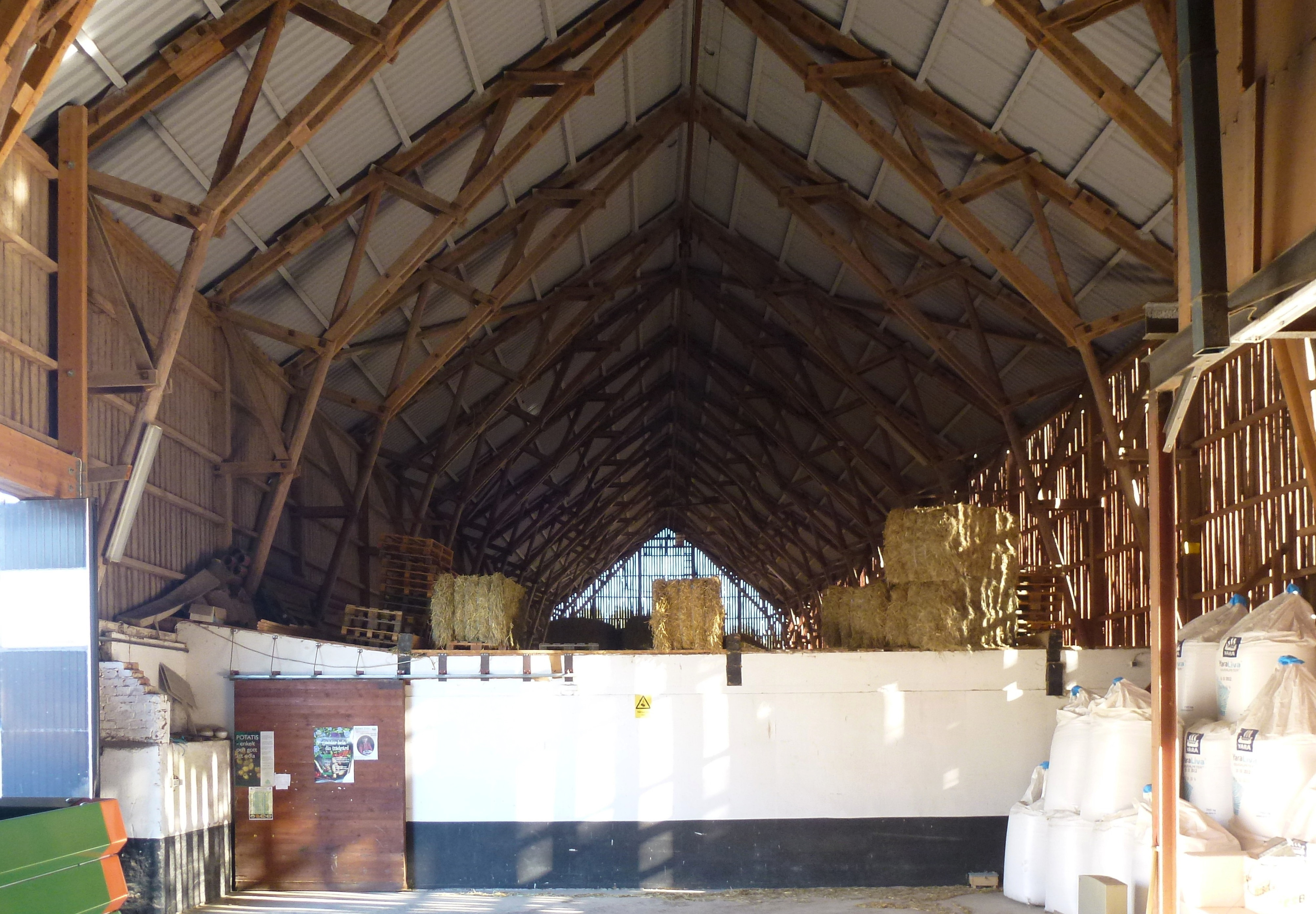 Ladviks farm with framing similar to what is called a plank frame barn in the United States.